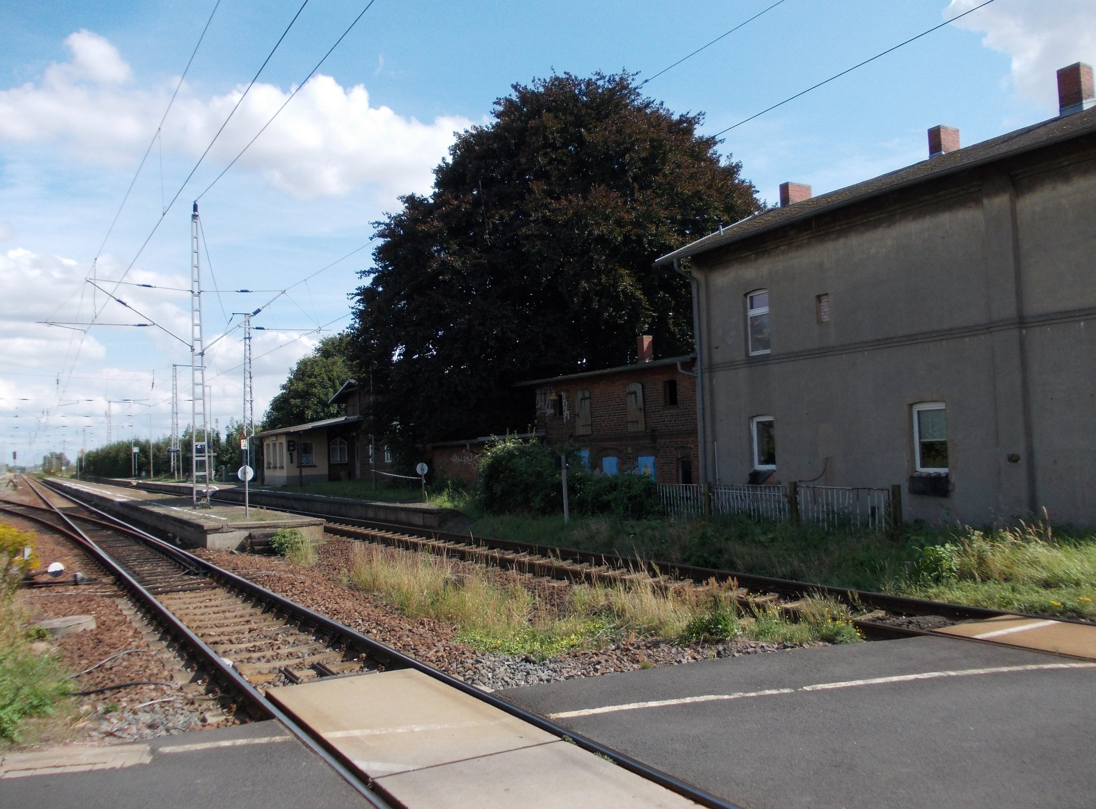 Klitschmar train station at the Halle-Eilenburg railway line (Wiedemar, Nordsachsen district, Saxony)